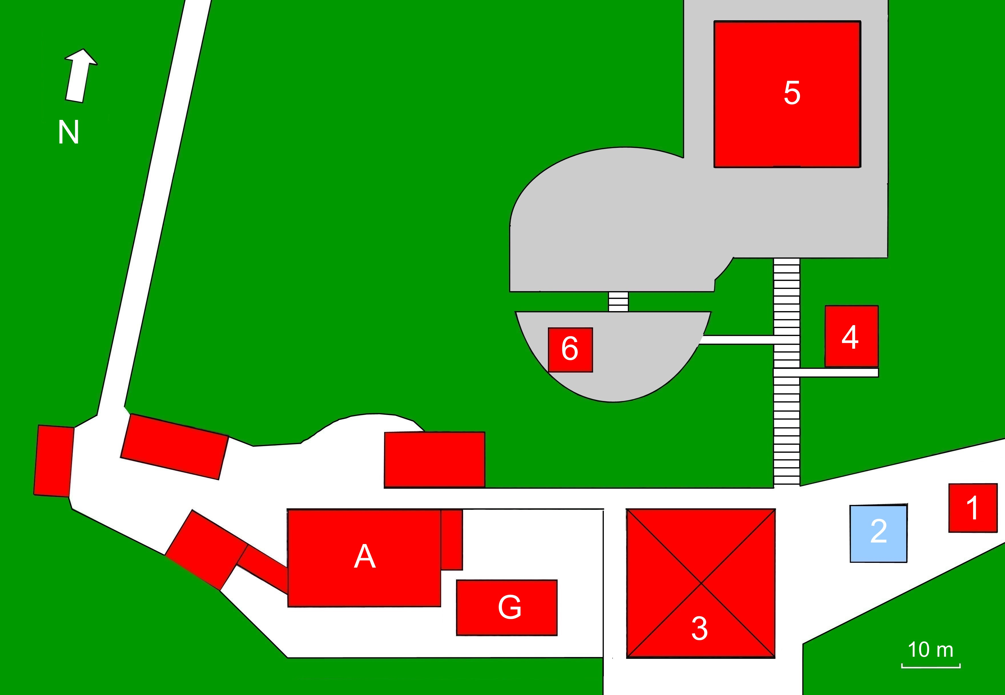 Layout of Banshû-Kiyomizu at Katô, Hyôgo prefecture, Japan